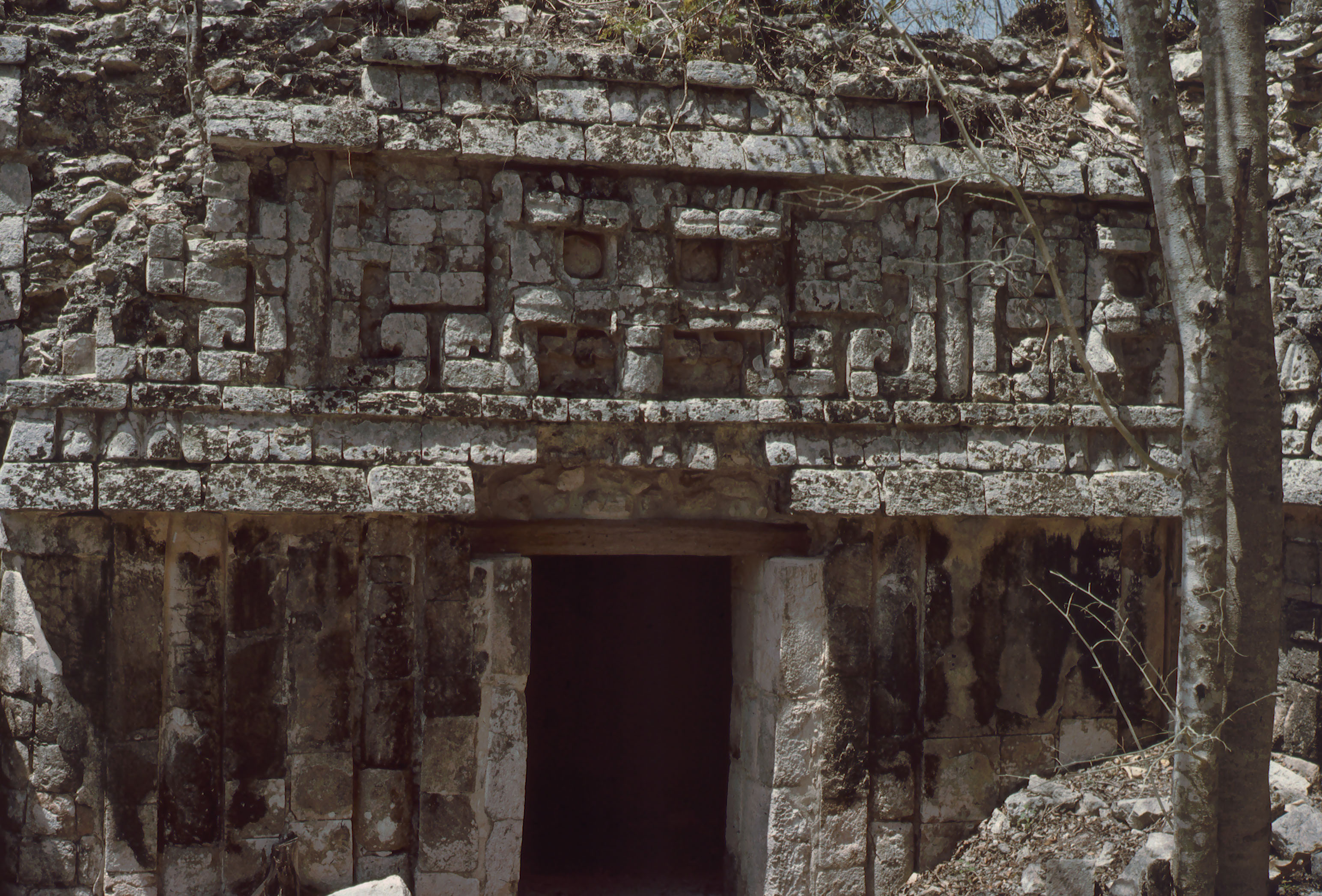 Xkichmook, Yucatan, Mexico: building 1.